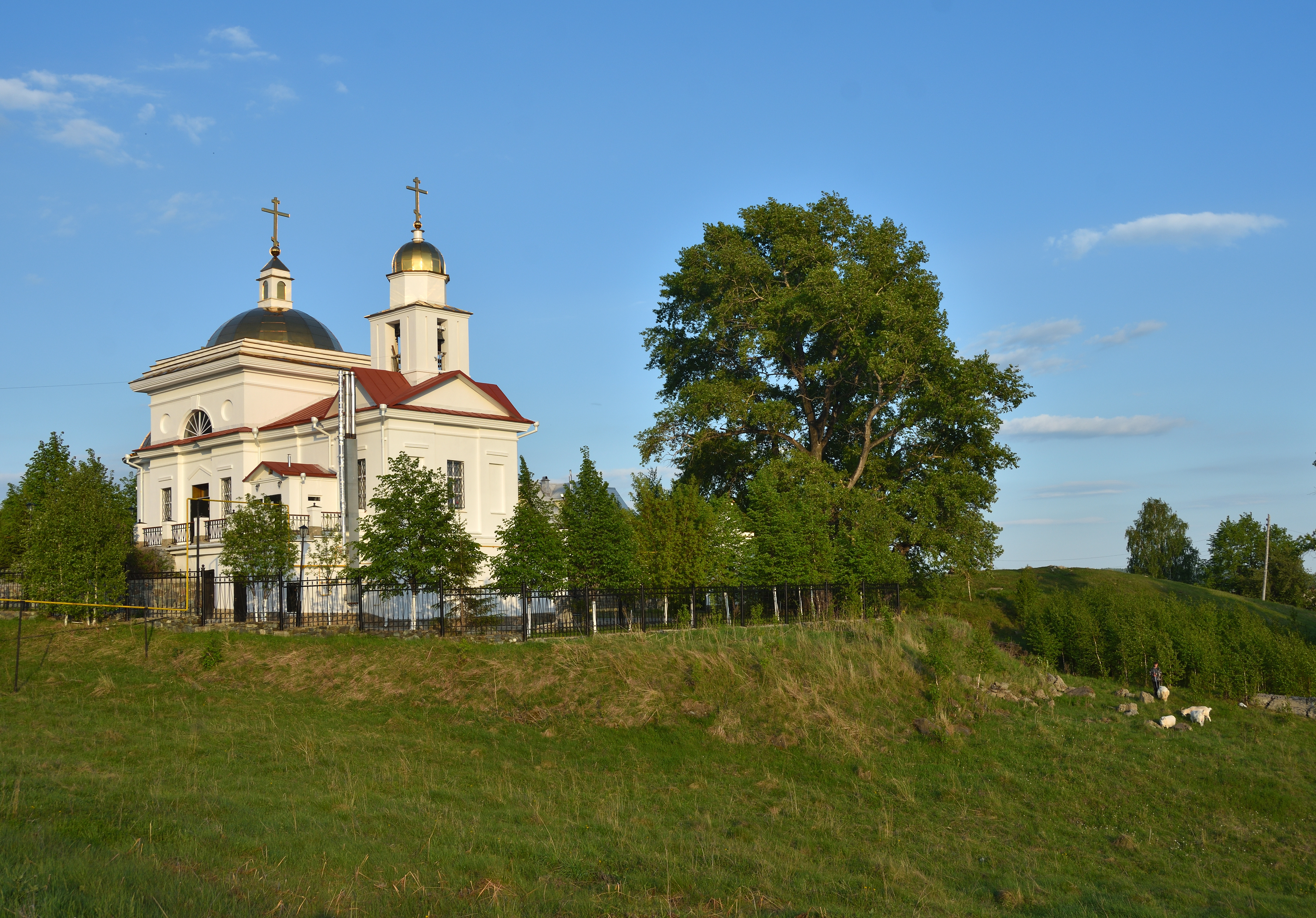 Church of the Resurrection of Christ, Verkh-Neyvinsky, Sverdlovsk oblast, Russia